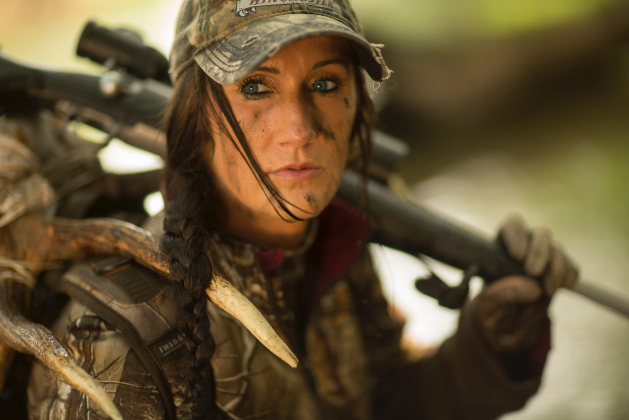 American hunter Melissa Bachman in camouflage and carrying a hunting rifle over her shoulder.